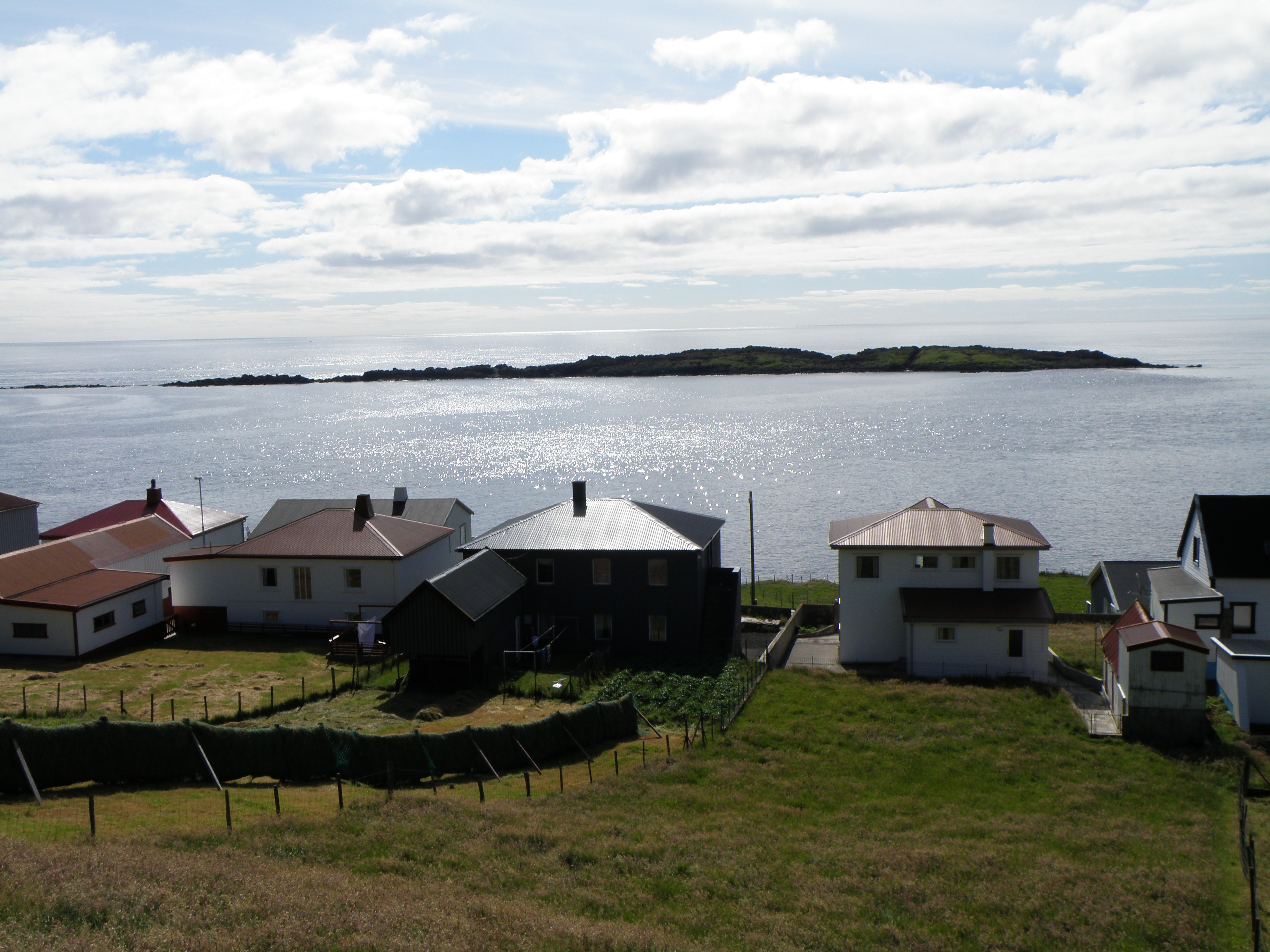 Sumbiarhólmur is an islet just outside Sumba, which is the southernmost village in Suðuroy. Suðuroy is the southernmost island of the Faroe Islands. This photo was taken on 22 July 2010 in Sumba. Some of the houses in the village are visible on the photo. Sumbiarhólmur is the 6th largest islet in the Faroe Islands. Føroyskt: Sumbiarhólmur er beint uttanfyri bygdina Sumba í Suðuroynni. Teir fyrstu føroyingarnir sum fingu eftirnavnið Holm vóru uppkallaði eftir Sumbiarhólmi. Hólmurin er 6 størsti hólmur í Føroyum. Hann er 7 hektarar til støddar. Um summarið ganga eini 7-8 veðrar á Sumbiarhólmi.